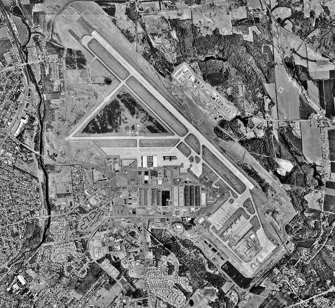 USGS orthophoto of Griffis Air Force Base, New York